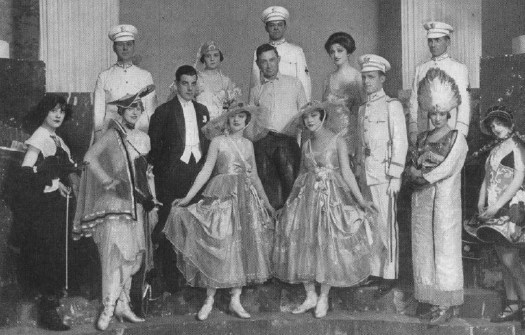 Personally scanned from pre-1923 magazine clippings.